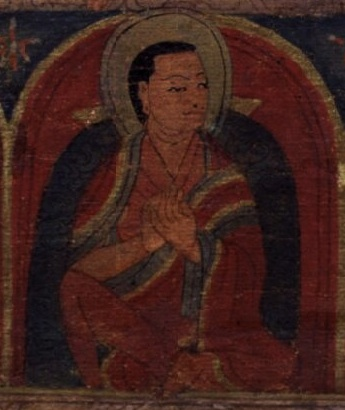 Lhodrak Namkha Gyalpo 13th Century Tibetan monk